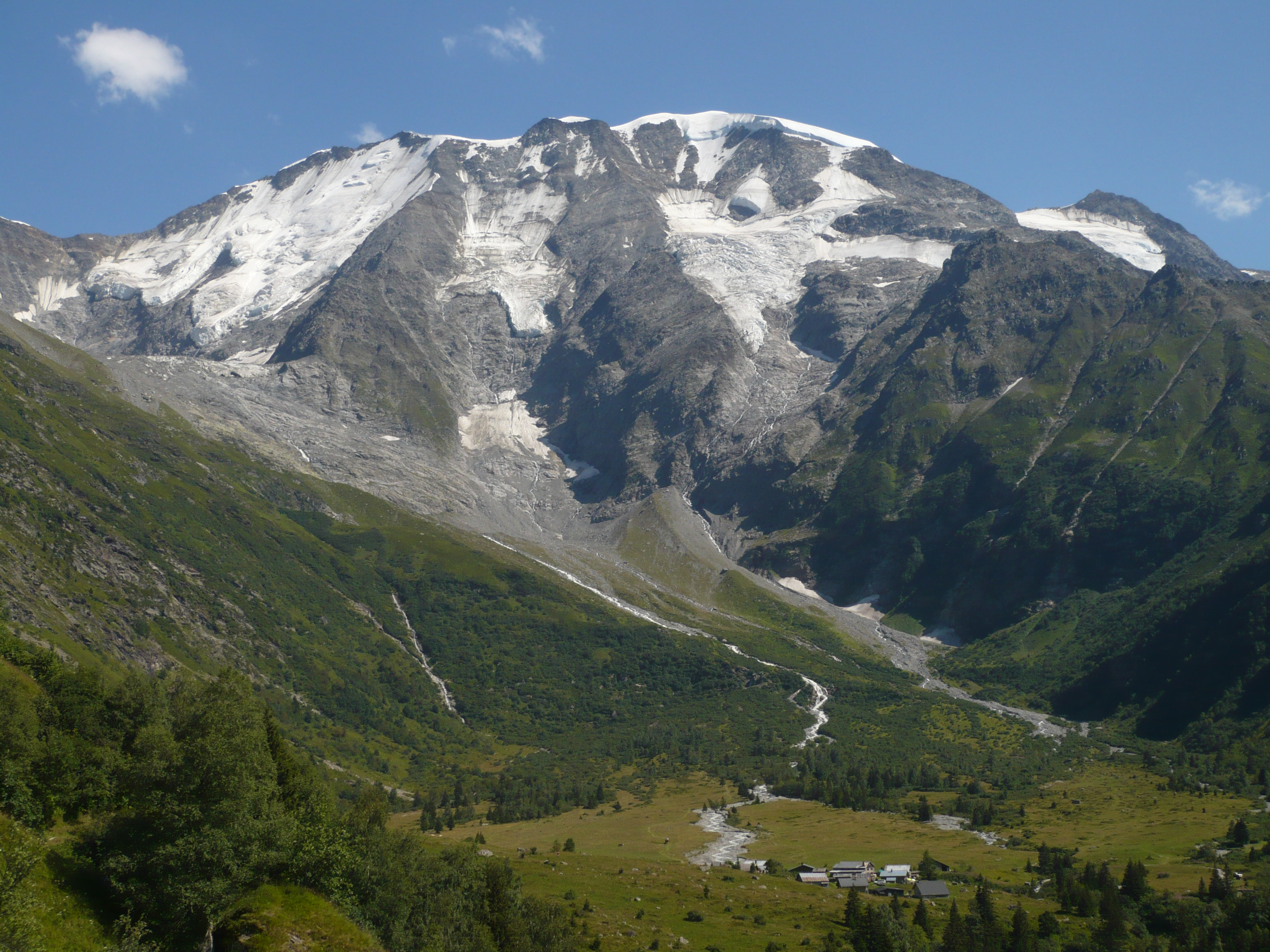 The french mountain « Les dômes de Miage », in the Alps